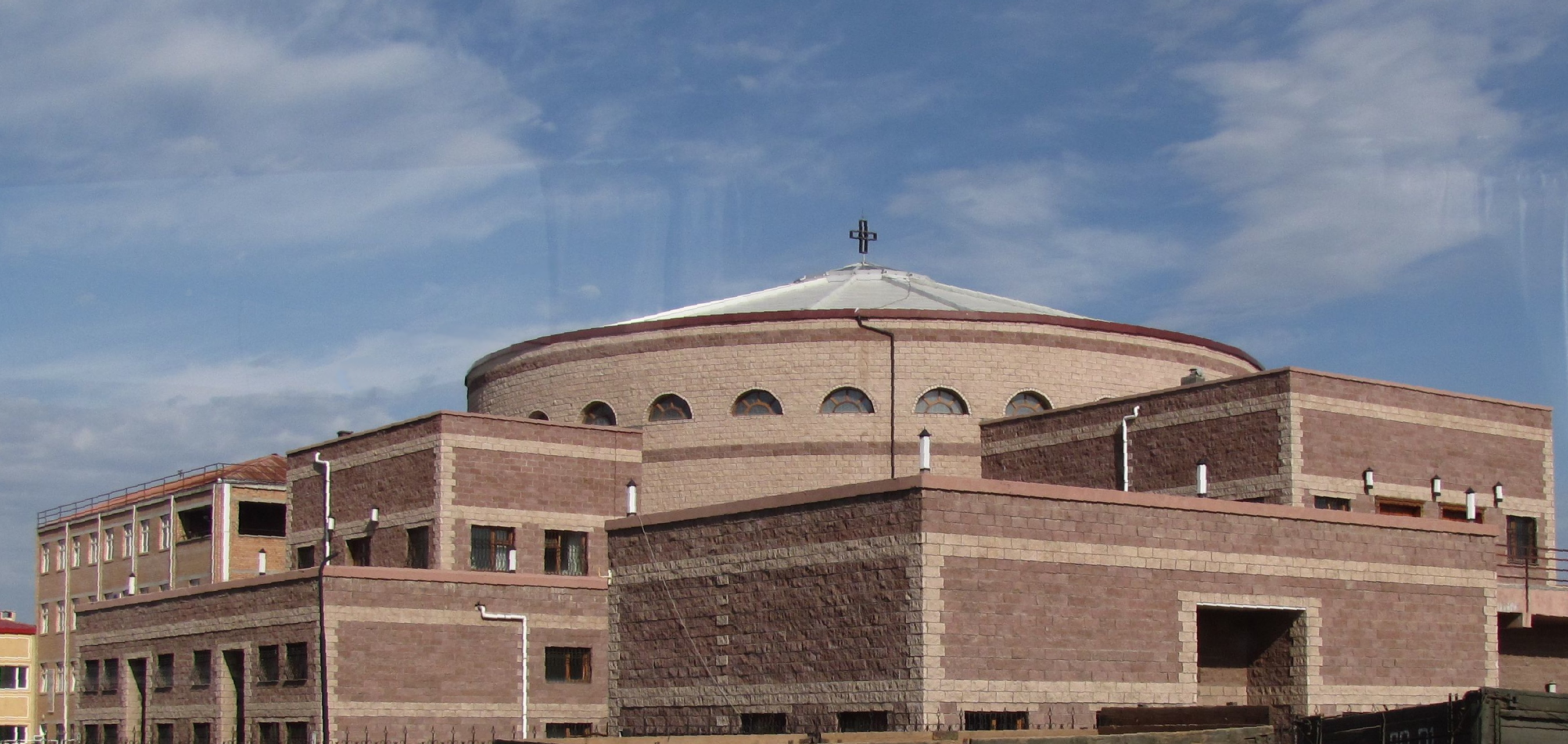 Cathedral Sts. Peter and Paul (dedicated 2003), Ulan Bator, Mongolia.